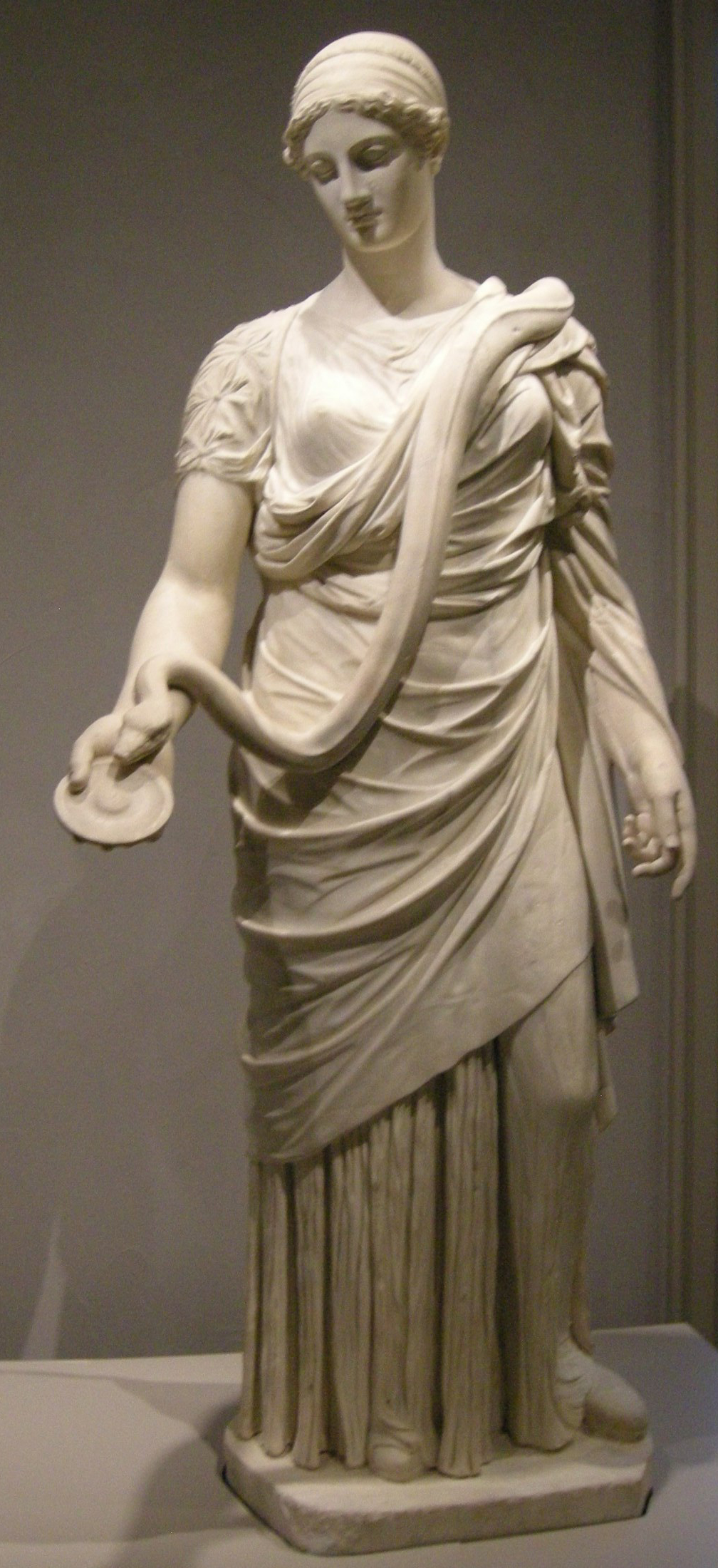 Statue of Hygieia. Roman copy (circa 130–161) after a Greek original of circa 360 B.C.; Los Angeles County Museum of Art.